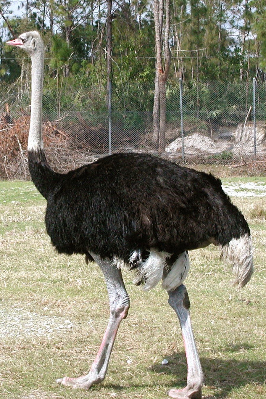 A picture taken by me, User:Kwh, of an ostrich (Struthio camelus)